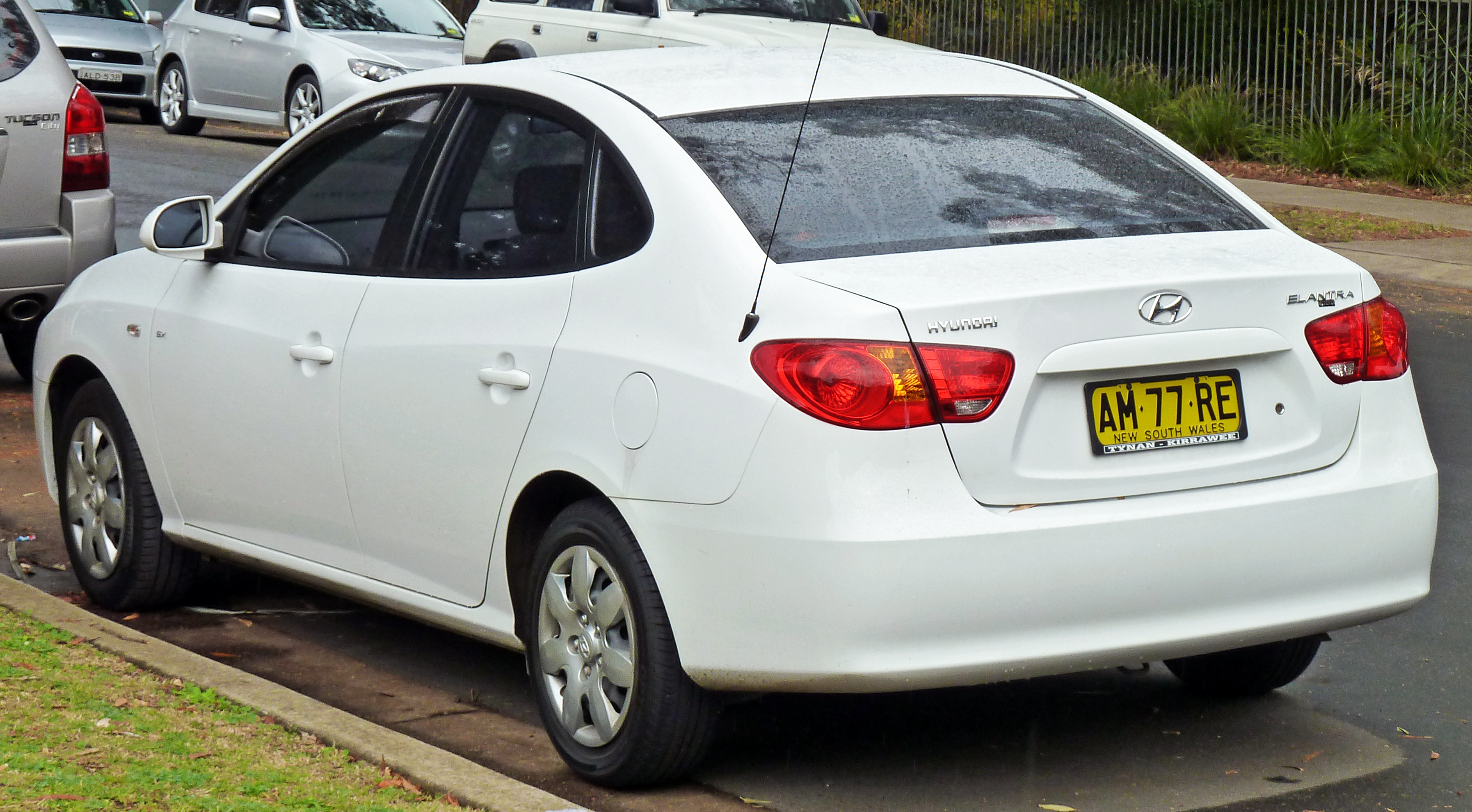 2006 Hyundai Elantra (HD) SX sedan. Photographed in Gymea, New South Wales, Australia.